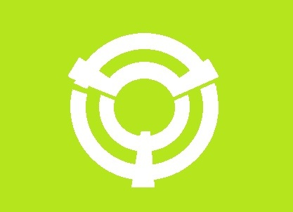 Flag of Seki Gifu